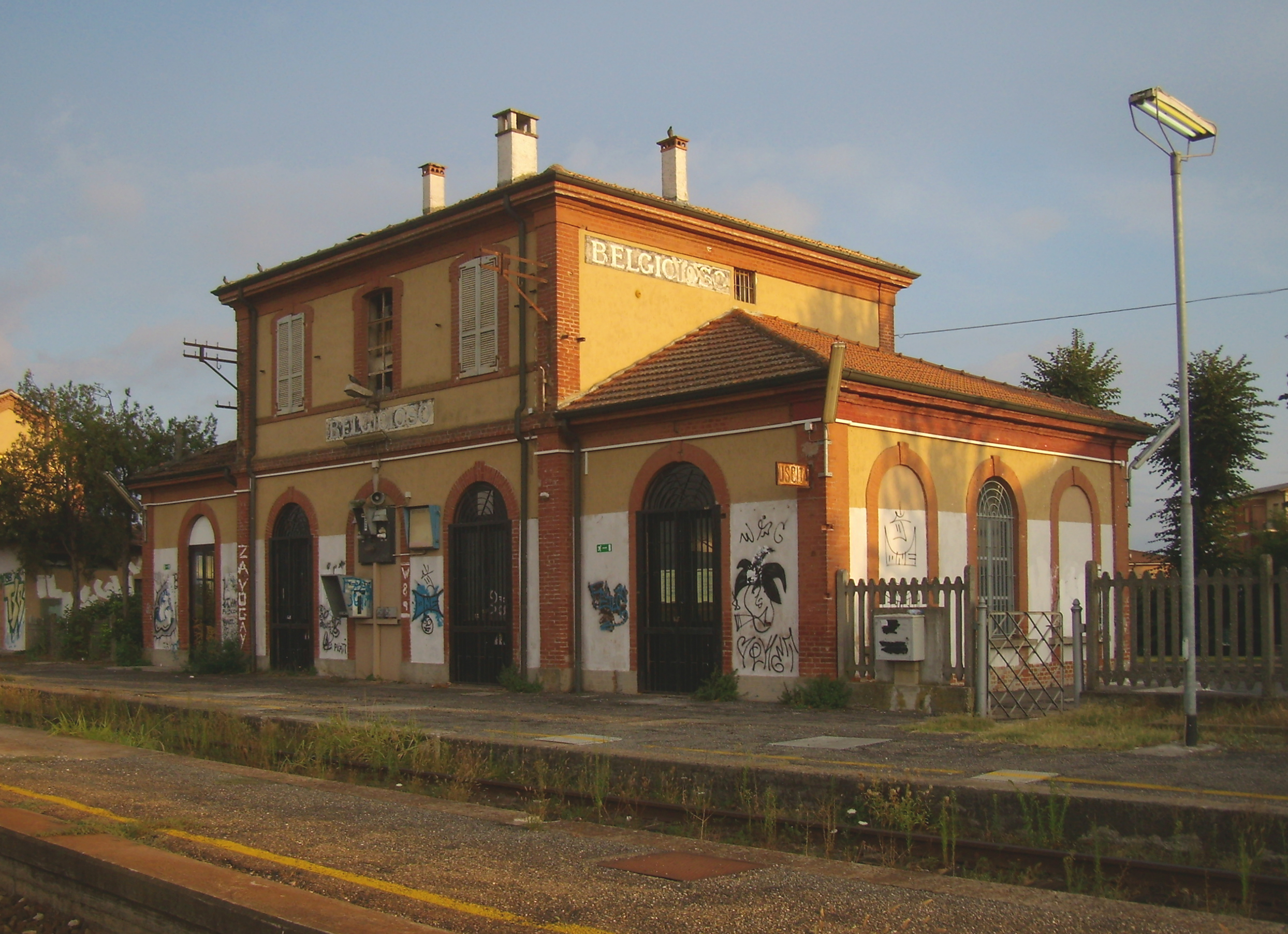 Railway station in Belgioioso (PV), Italy